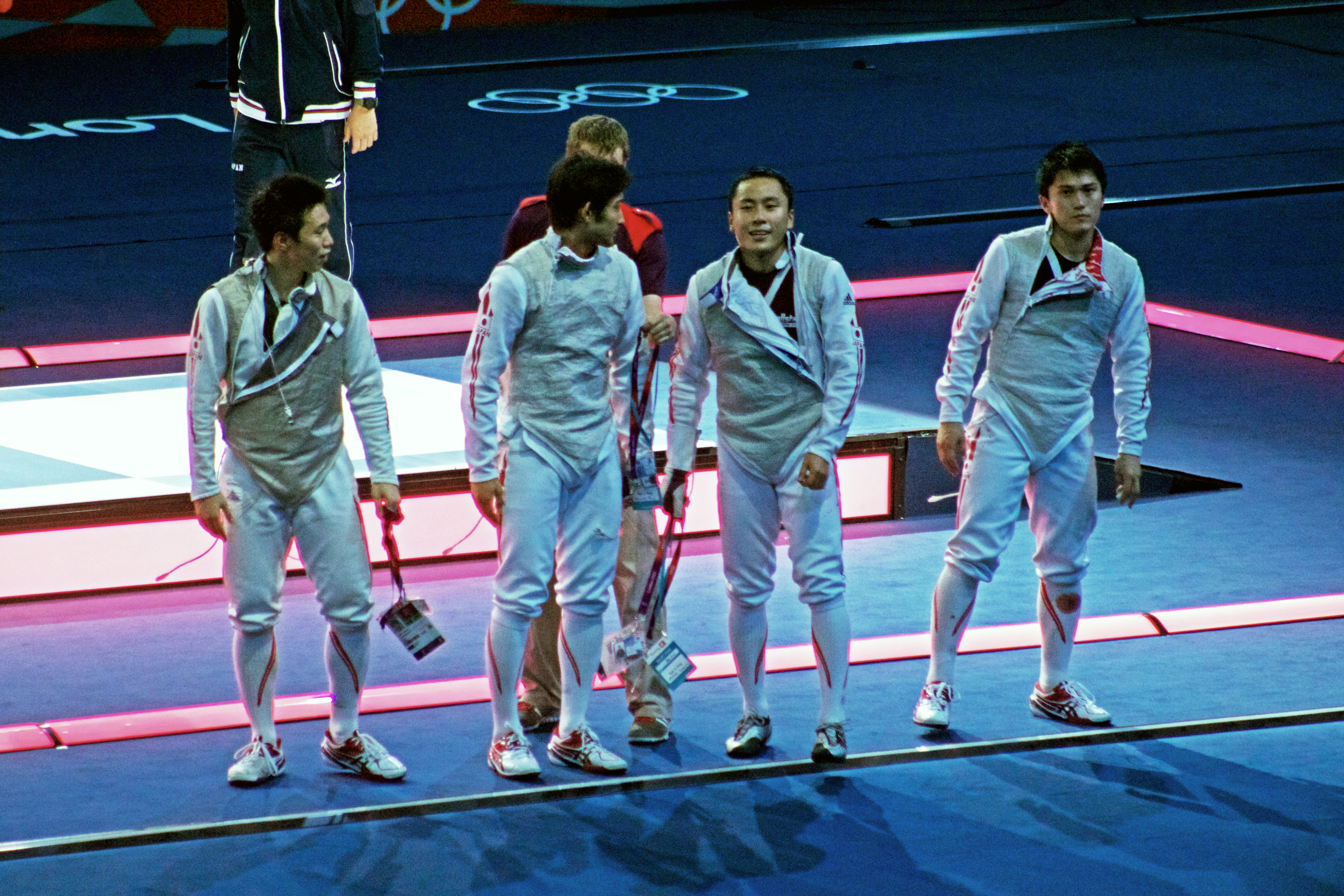 Japan's men foil team at the 2012 Summer Olympics. Left to right: Suguru Awaji, Ryo Miyake, Yuki Ota and Kenta Chida.